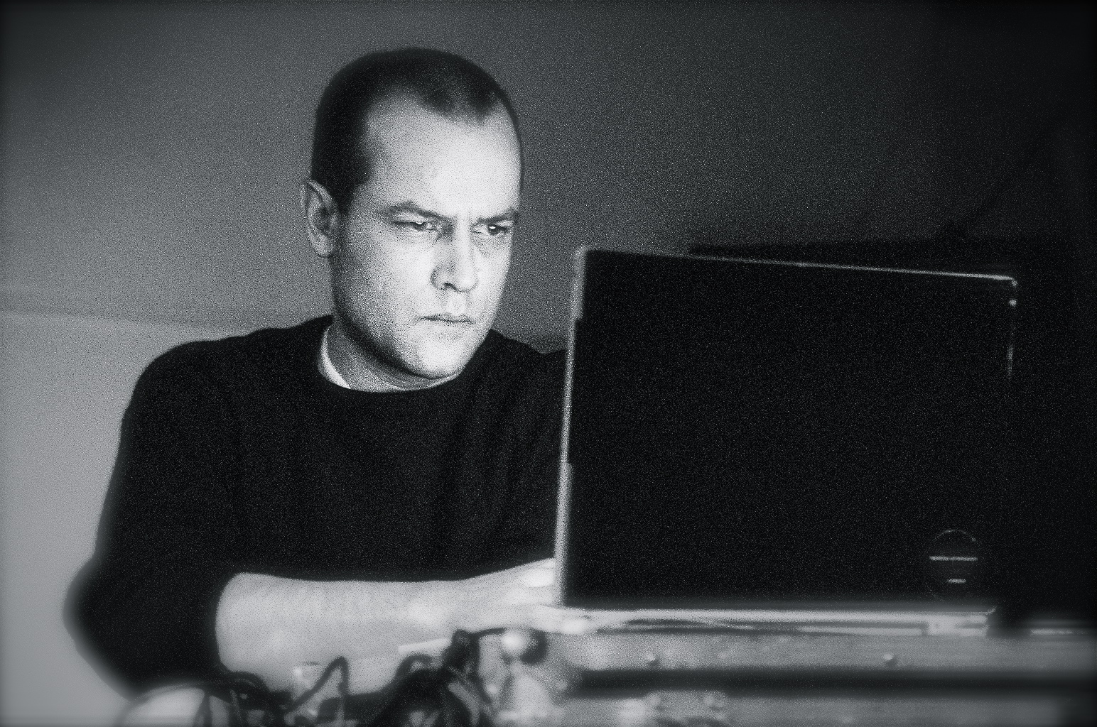 Marcus Schmickler live in London